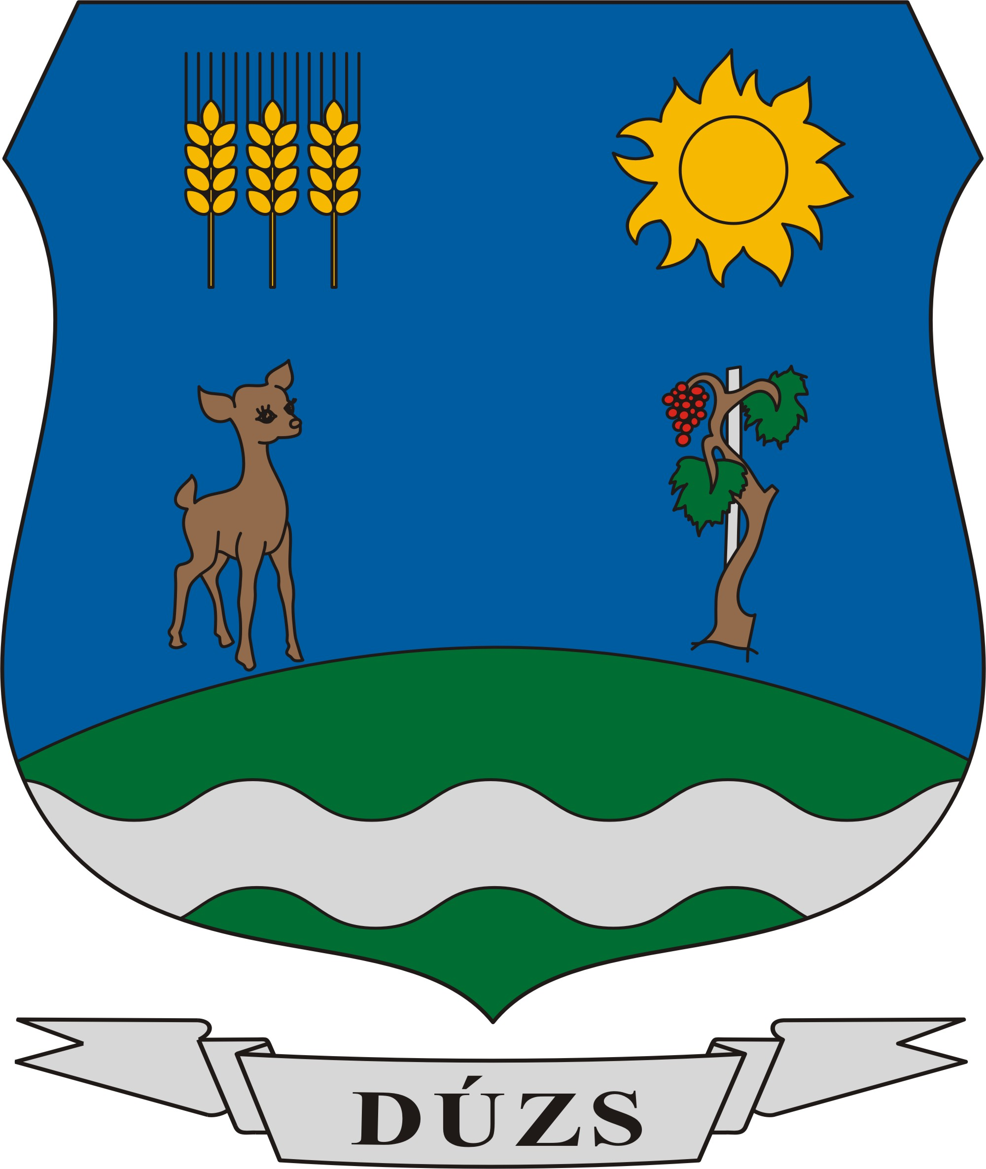 Coat of arms of Dúzs, Hungary